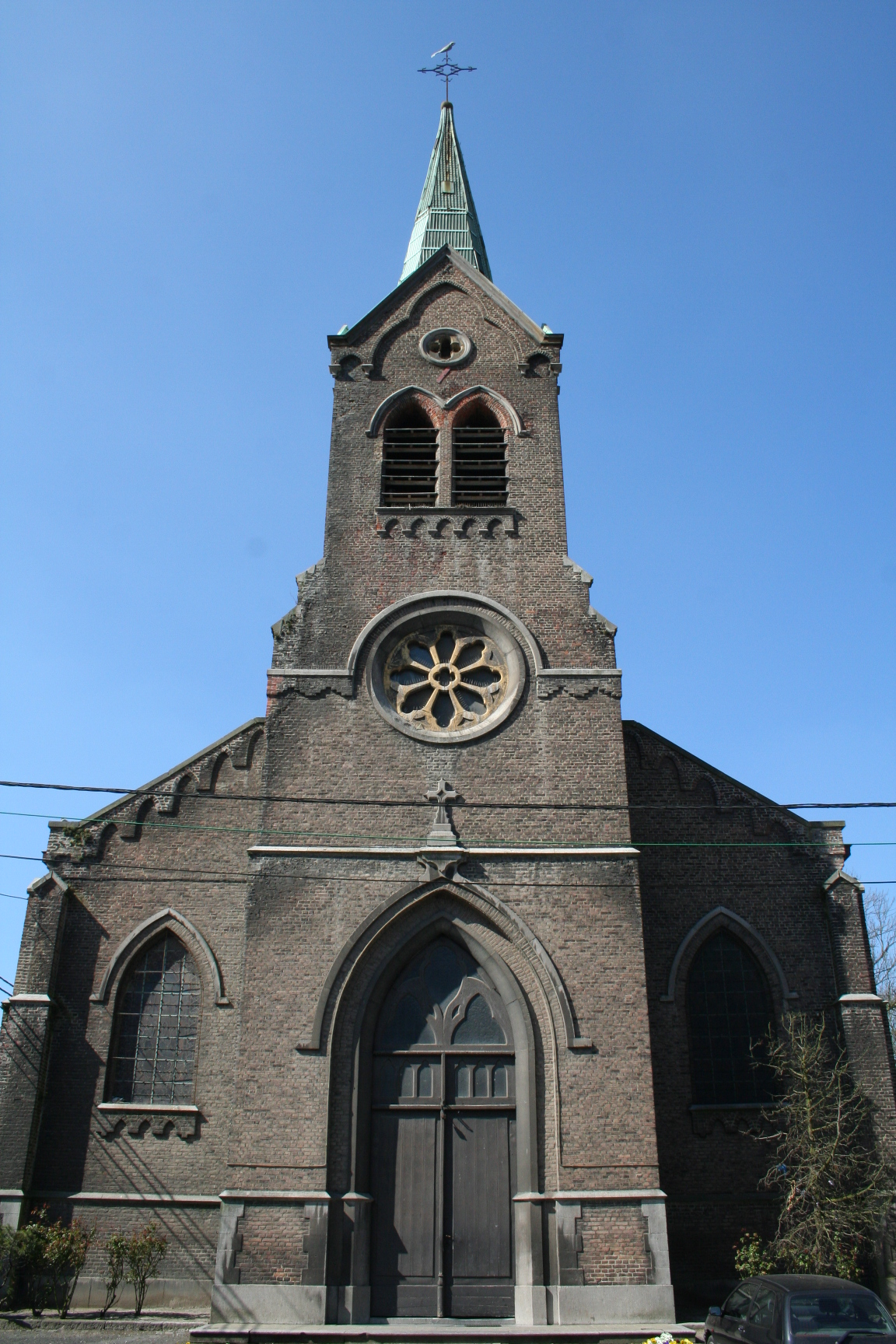 Flénu (Belgium), the St. Barbara church.